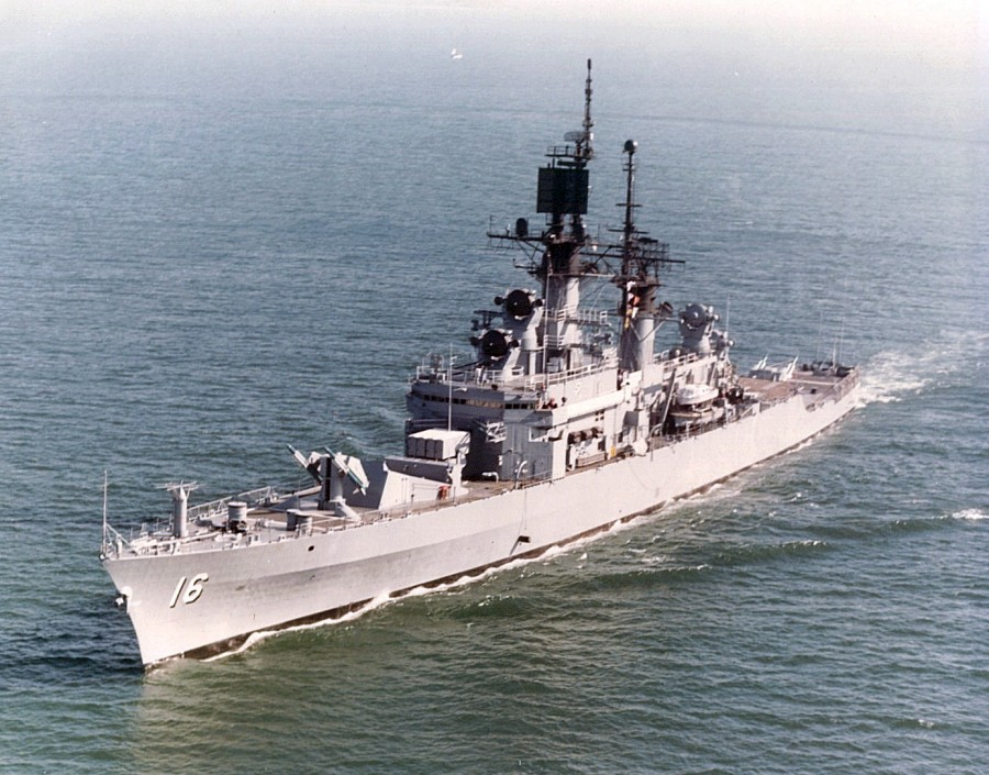 The U.S. Navy guided missile cruiser USS Leahy (CG-16) departing San Diego, California (USA), in May 1978.